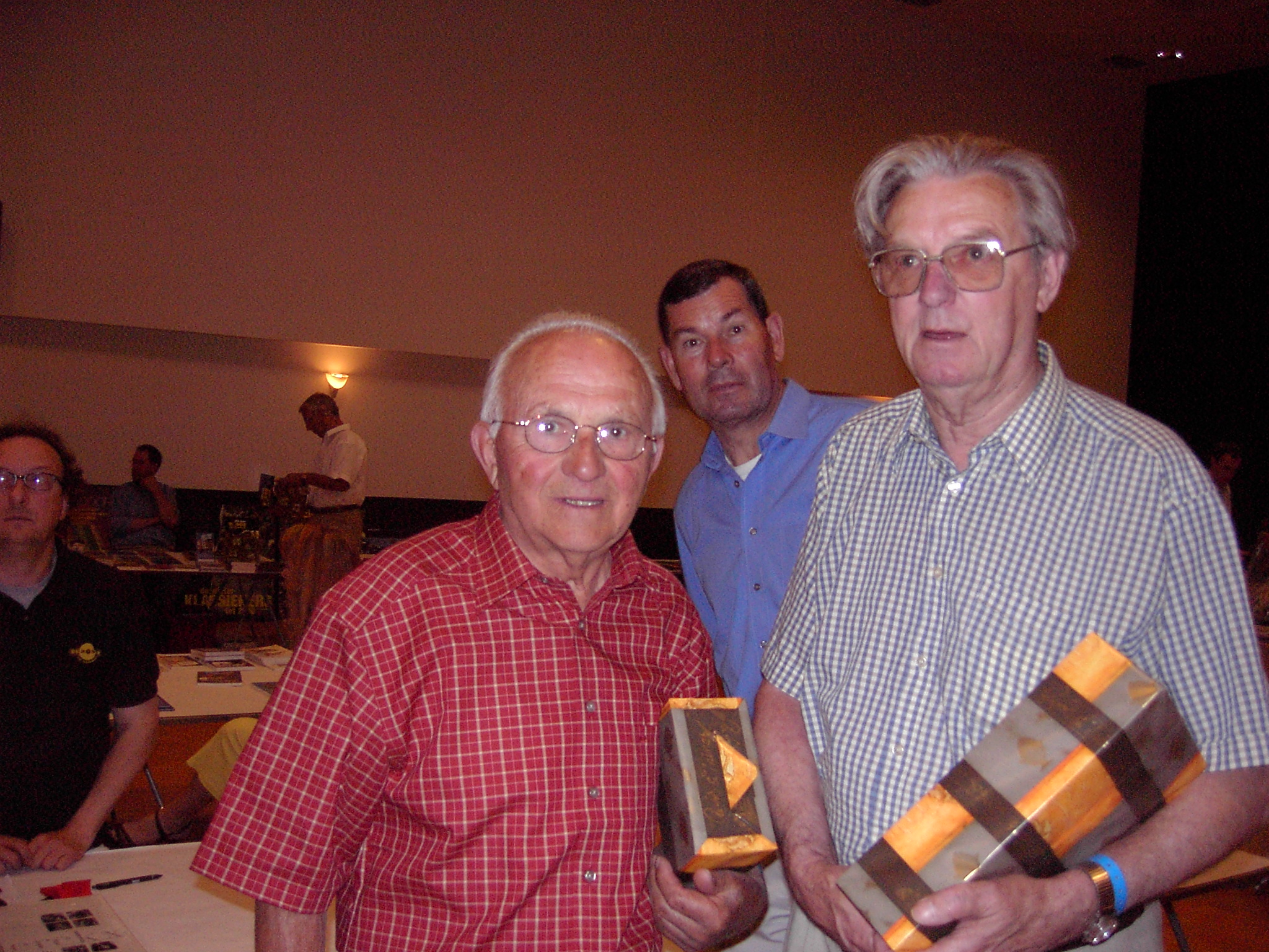 Former cyclists Sjef Janssen and Jan Nolten in Valkenburg in 2003